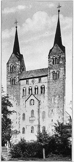 Corvey Abbey, Germany, in Höxter Quelle: Fritz-Milkau-Dia-Sammlung, erstellt in der Photographischen Werkstatt der Preußischen Staatsbibliothek von 1926-1933